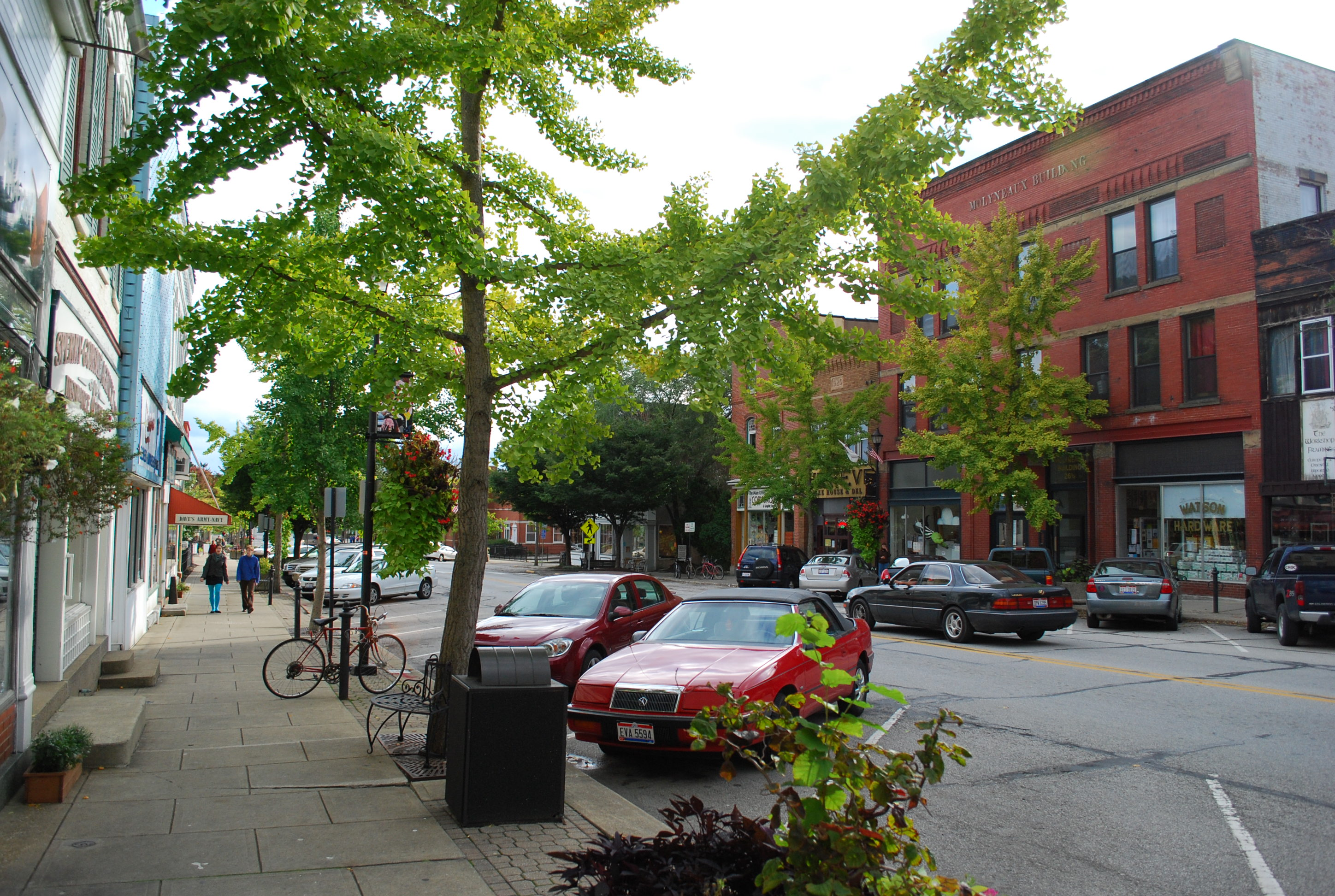 Downtown Oberlin, Ohio, USA in the fall of 2009.